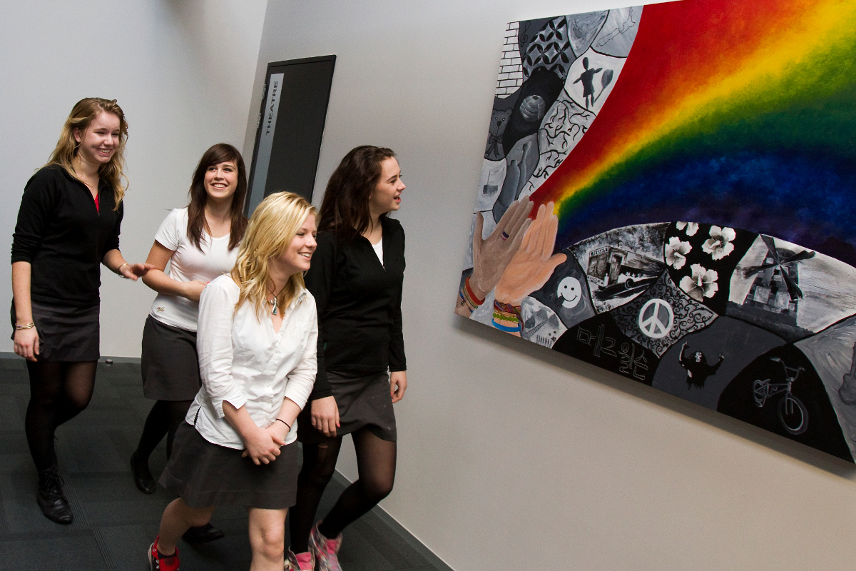 Students and artwork at Albany Senior High School, New Zealand.